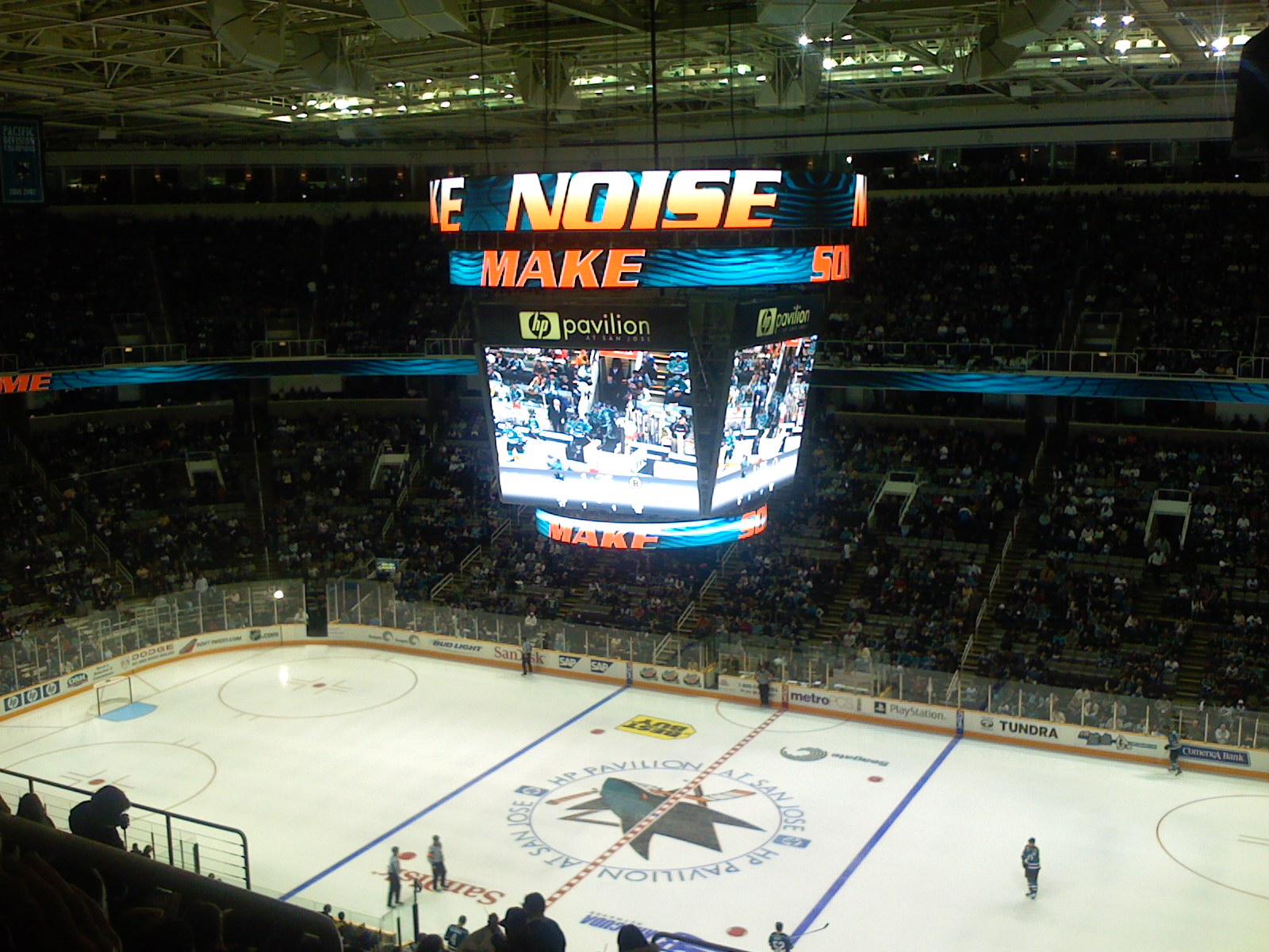 HP Pavilion, SJ Sharks game